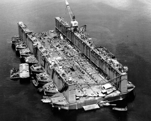 USS ABSD-3 at Guam, a Auxiliary floating drydock for large ship repair during WW2